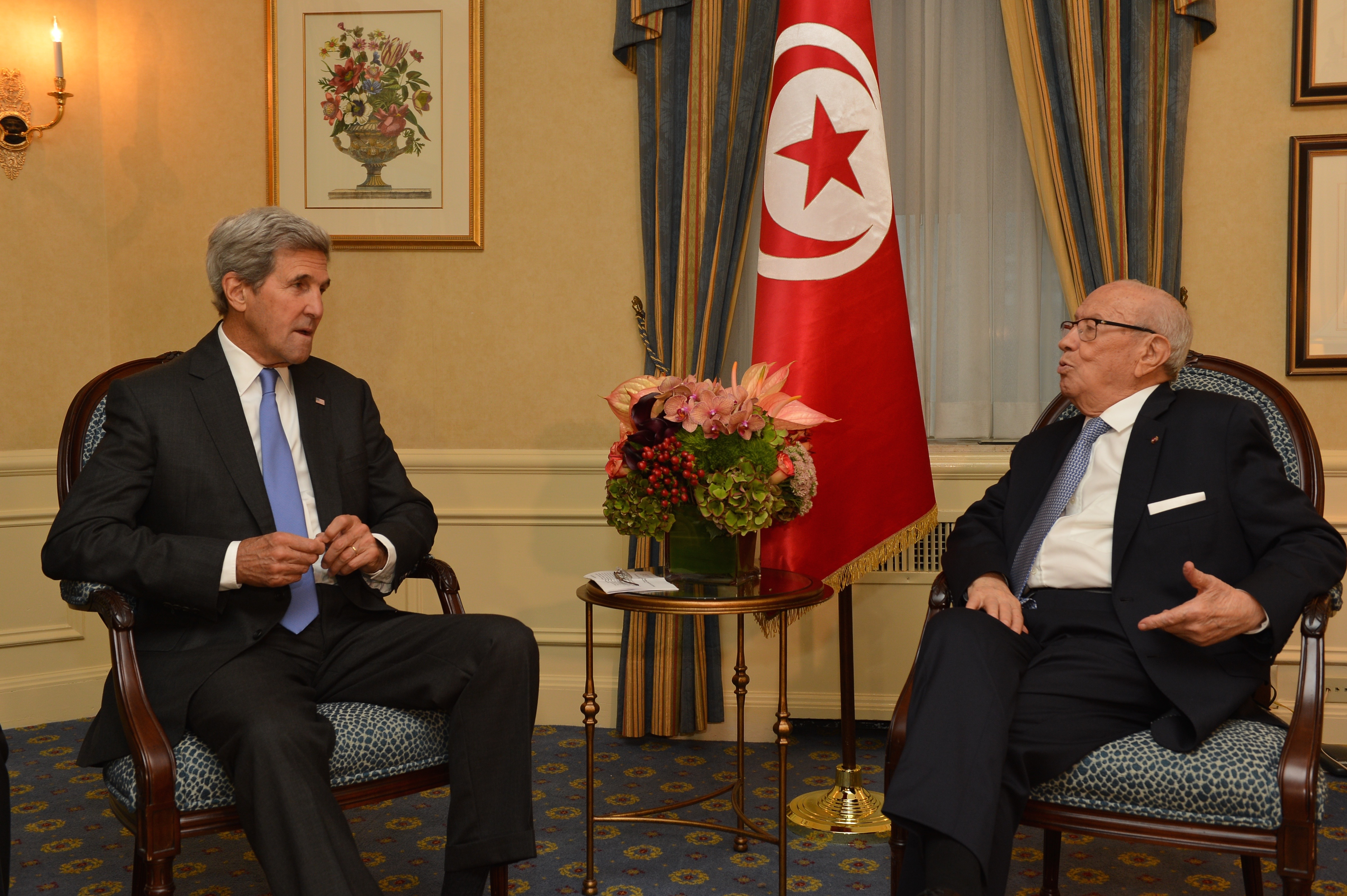 U.S. Secretary of State John Kerry meets with Tunisian President Beji Caid Essebsi in New York City, New York on September 19, 2016. [State Department Photo/Public Domain]